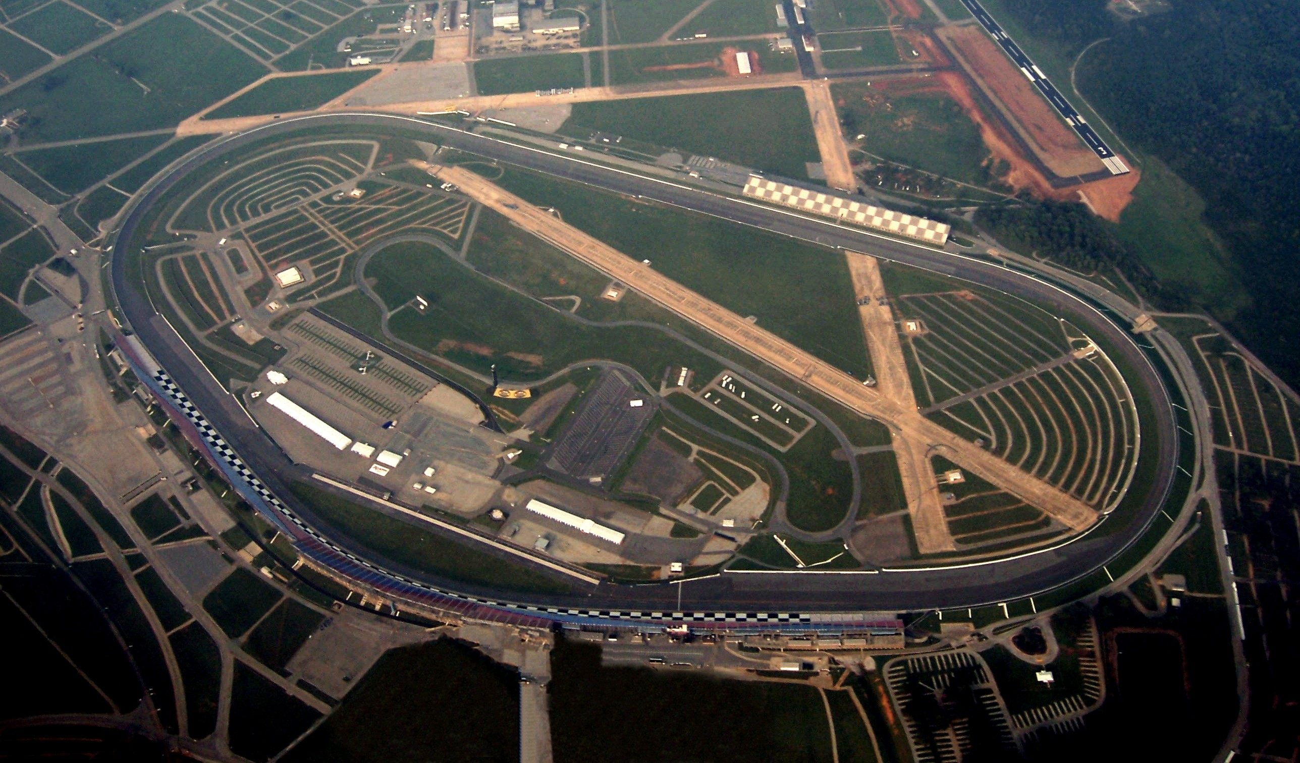 This image is of the Talladega Superspeedway, located in Talladega, Alabama. The image was taken from approximately 5000ft MSL (4500ft AGL) with visibility limited to approximately 4sm due to haze. The left wheel of the aircraft has been digitally removed from the image, causing some distortion in the lower sections, just below the track. The old Talladega Municipal Airport runways are still visible, crossing inside the track. The new airport and runway are located in the background, just north east of the track's position.